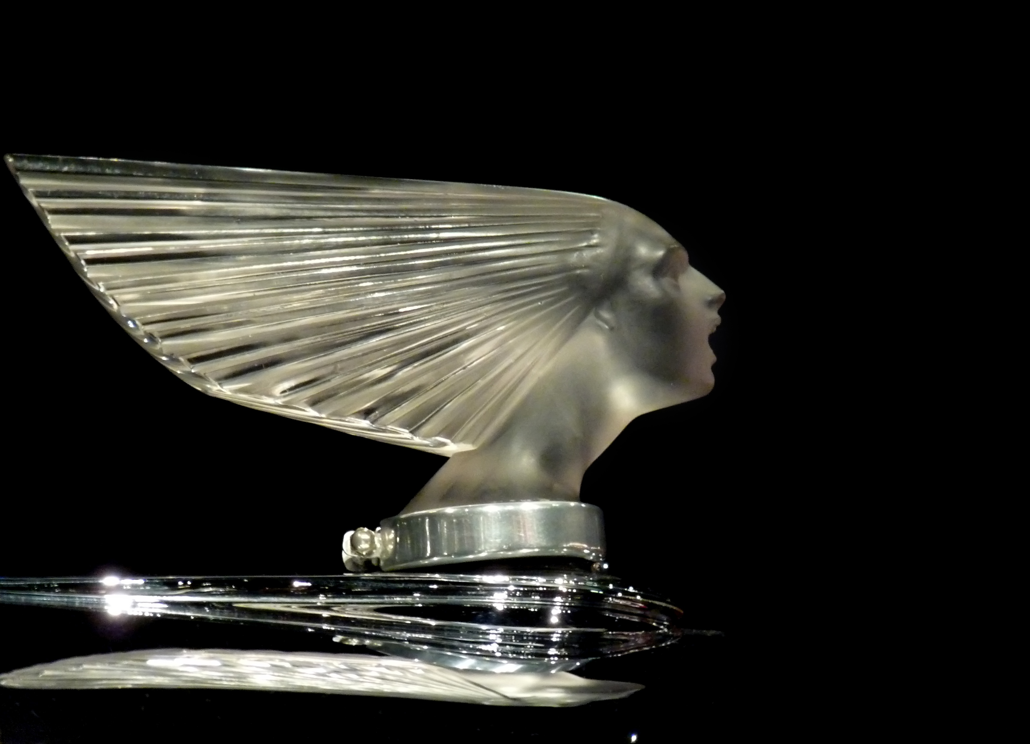 "Spirit of the Wind" or "Victoire" mascot by Lalique. At Blackhawk Automotive Museum in Danville, California.